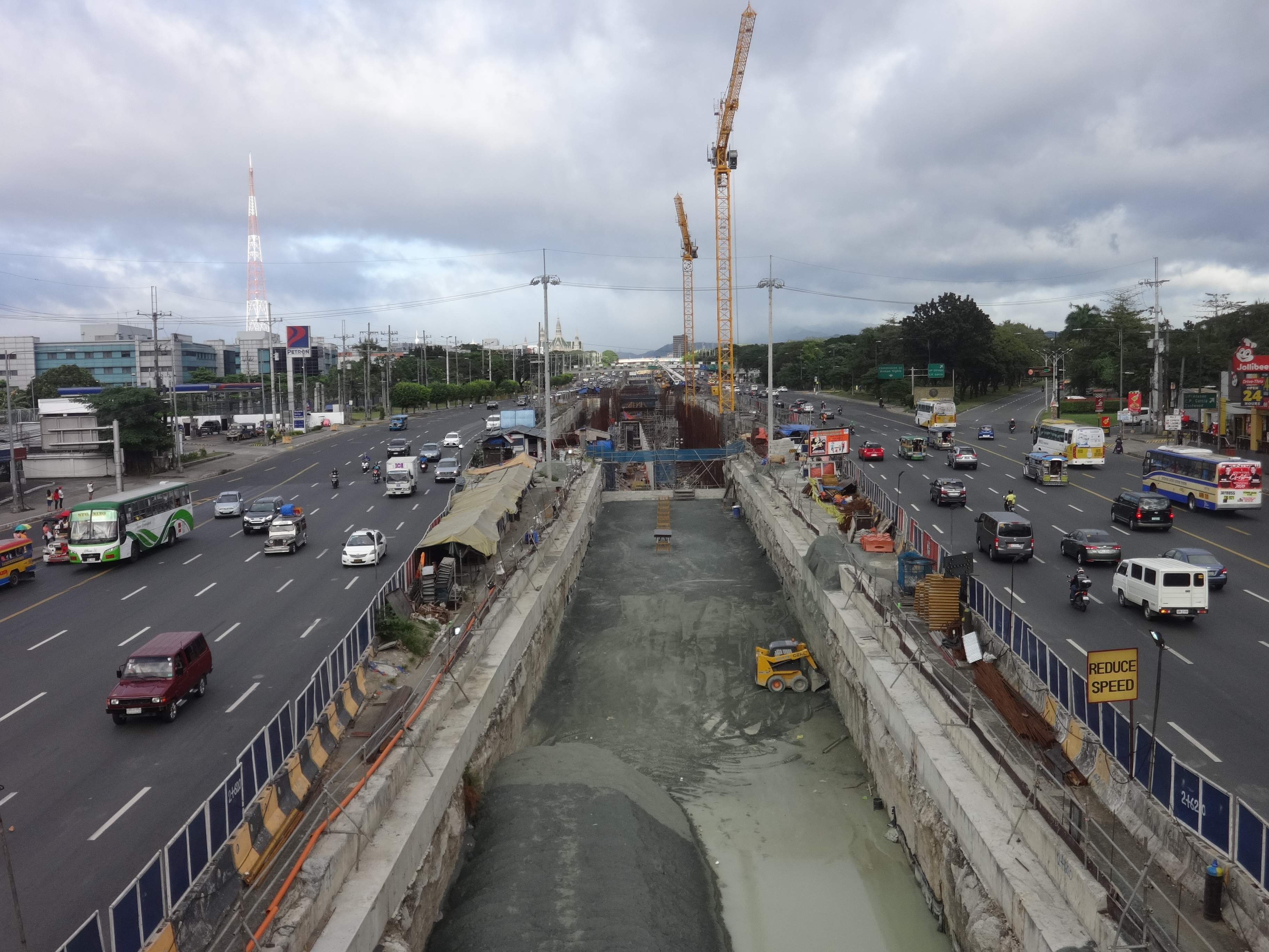 Commonwealth Avenue with MRT-7 project in Quezon City